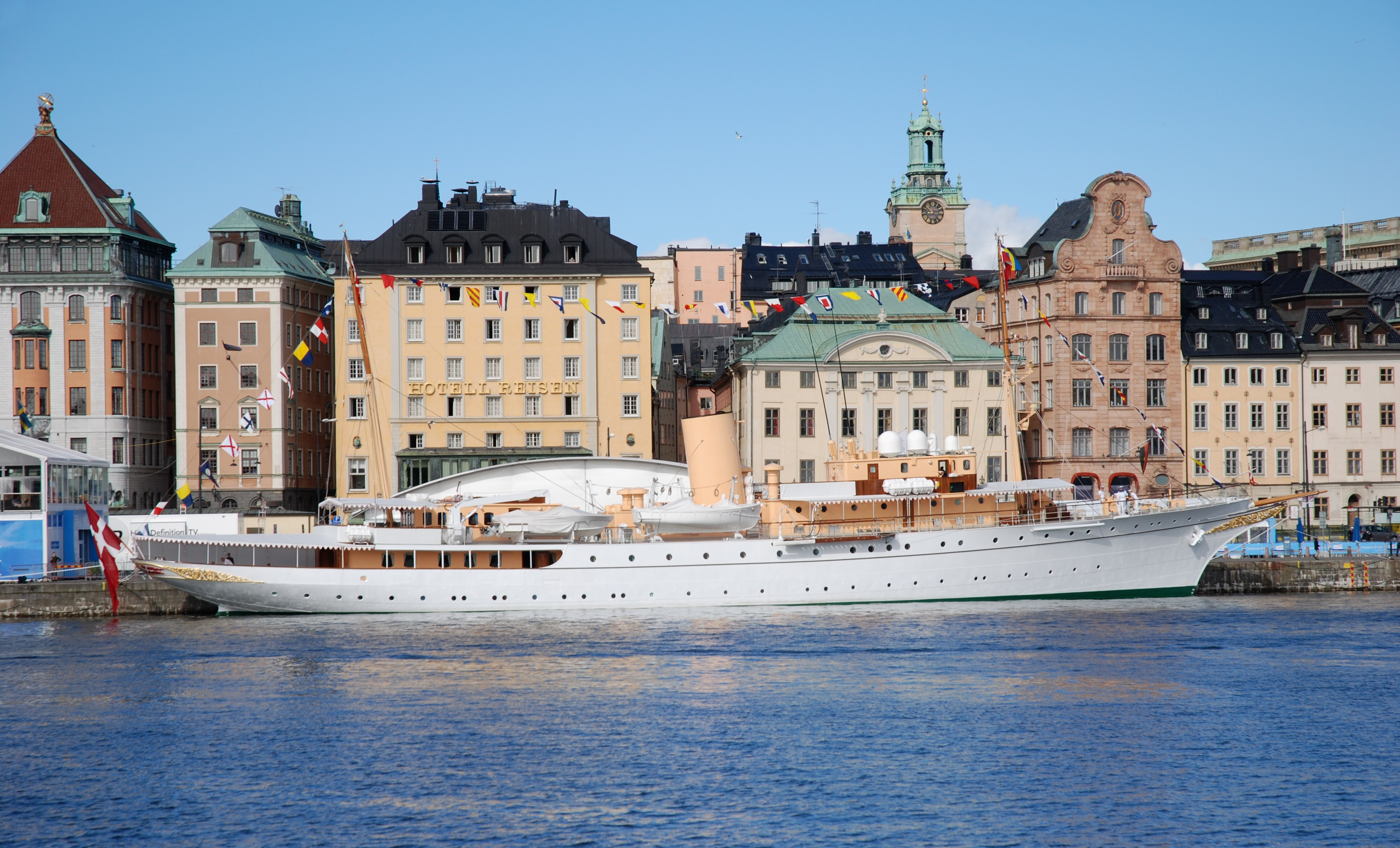 Danish Royal Yacht KDM Dannebrog, launched in Stockholm Harbour for the Royal Wedding, June 19, 2010